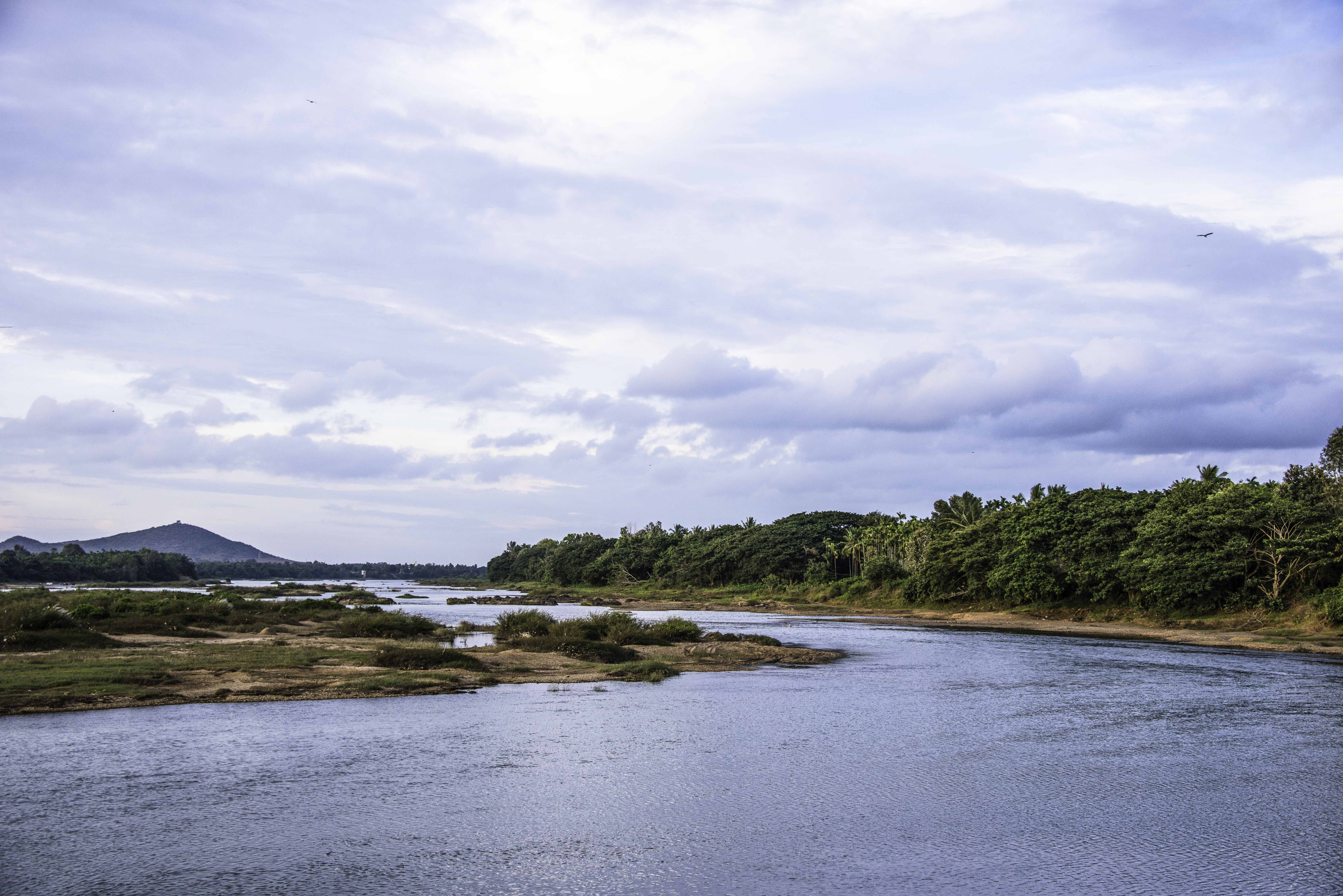 Beautiful Landscape at Kudli